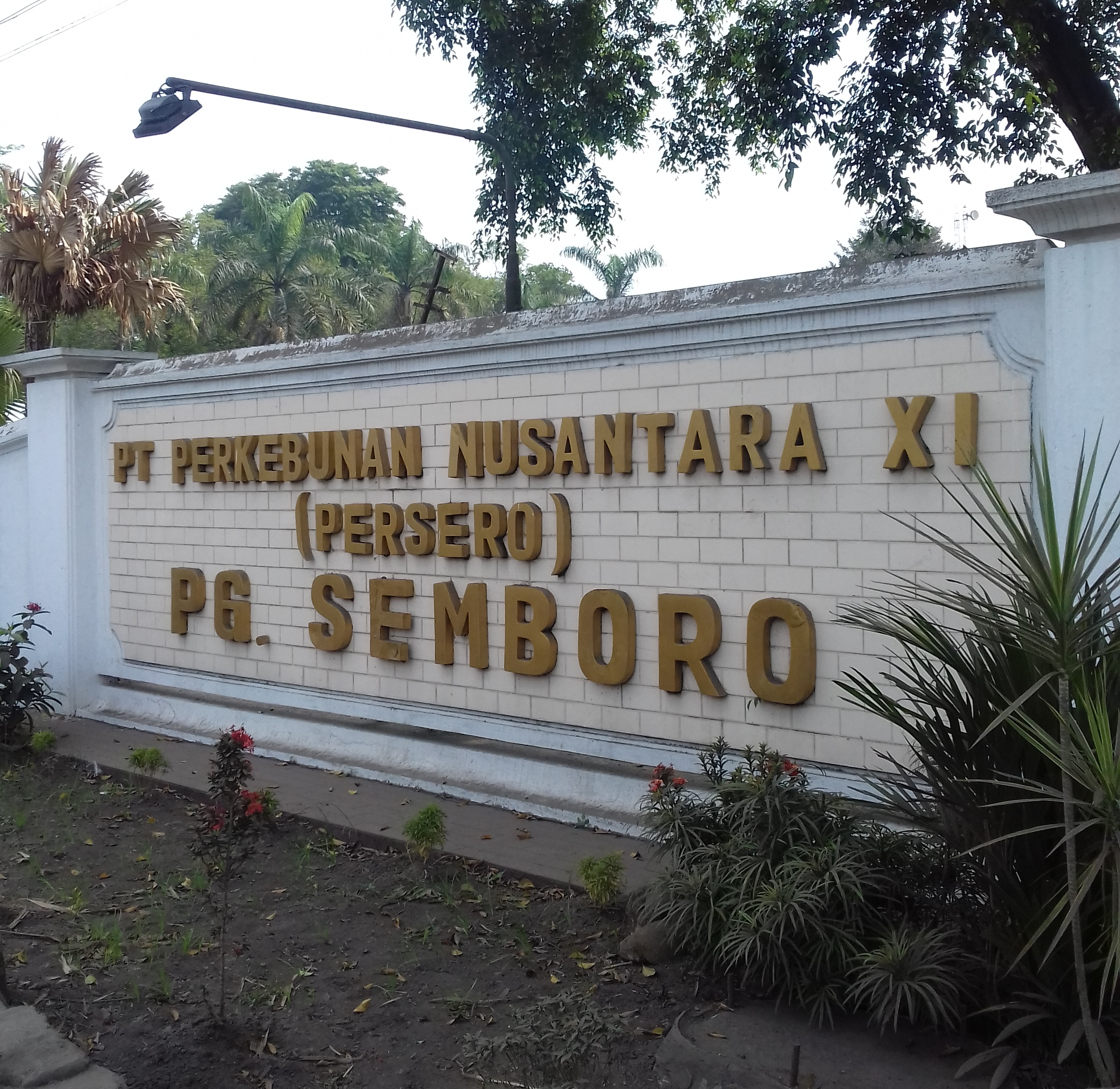 Signage of Semboro Sugar Factory at Semboro, Indonesia